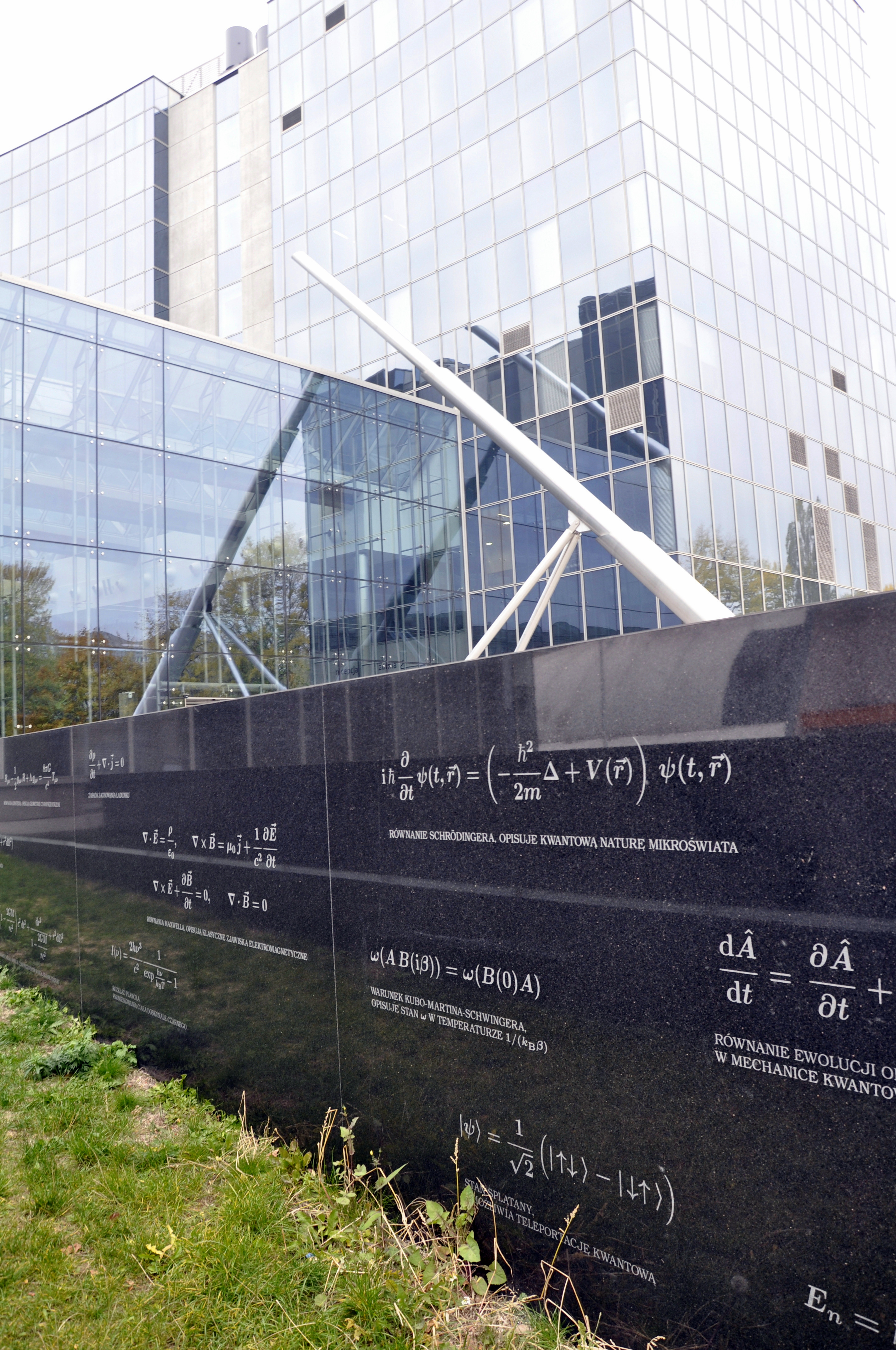 Building of Warsaw University's Centre of New Technologies, Banacha 2c Street, part of Ochota Campus